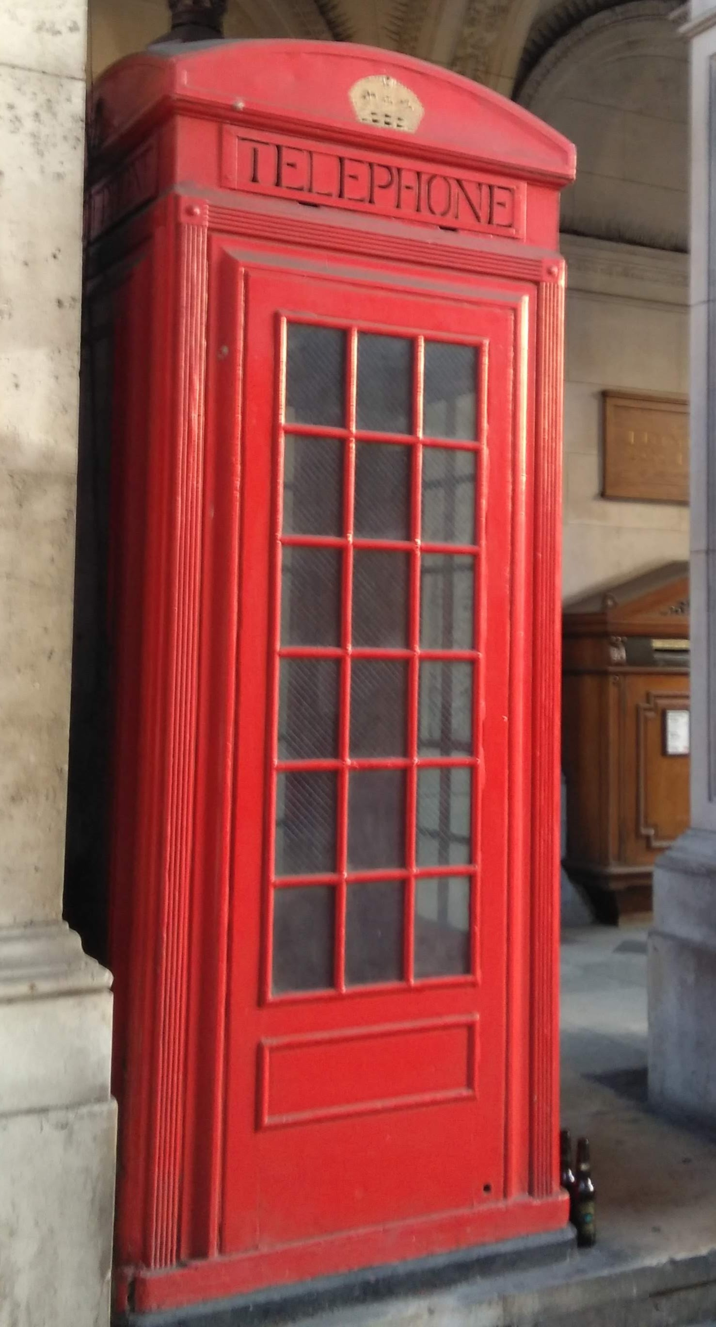 Wooden prototype K2 telephone box, located in the portico of the Royal Academy in London